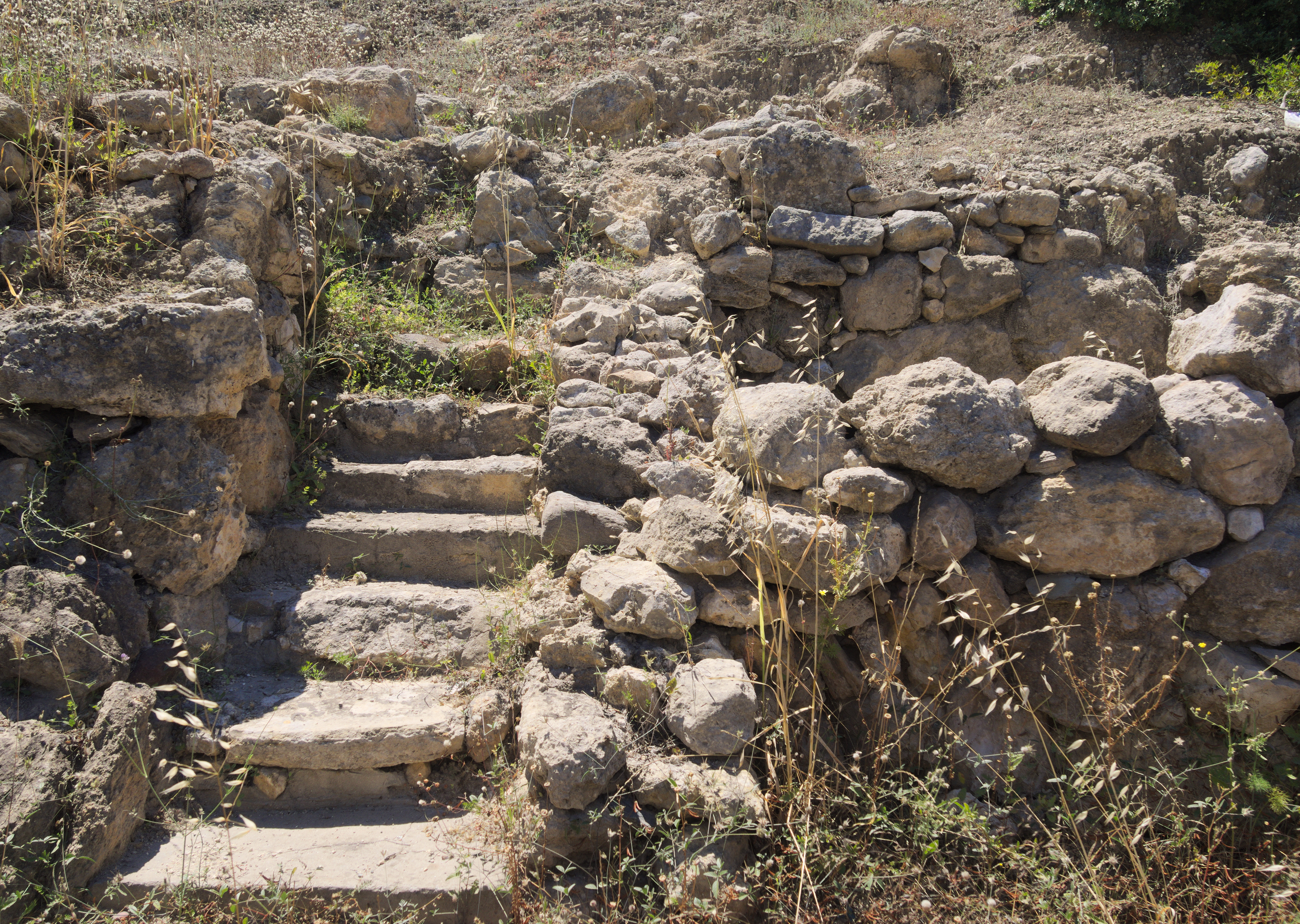 The minoan villa of Piskokefalo, Crete, located at the edge of the street.